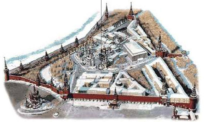 Overview map of the Moscow Kremlin. Location of Tsar Cannon marked.